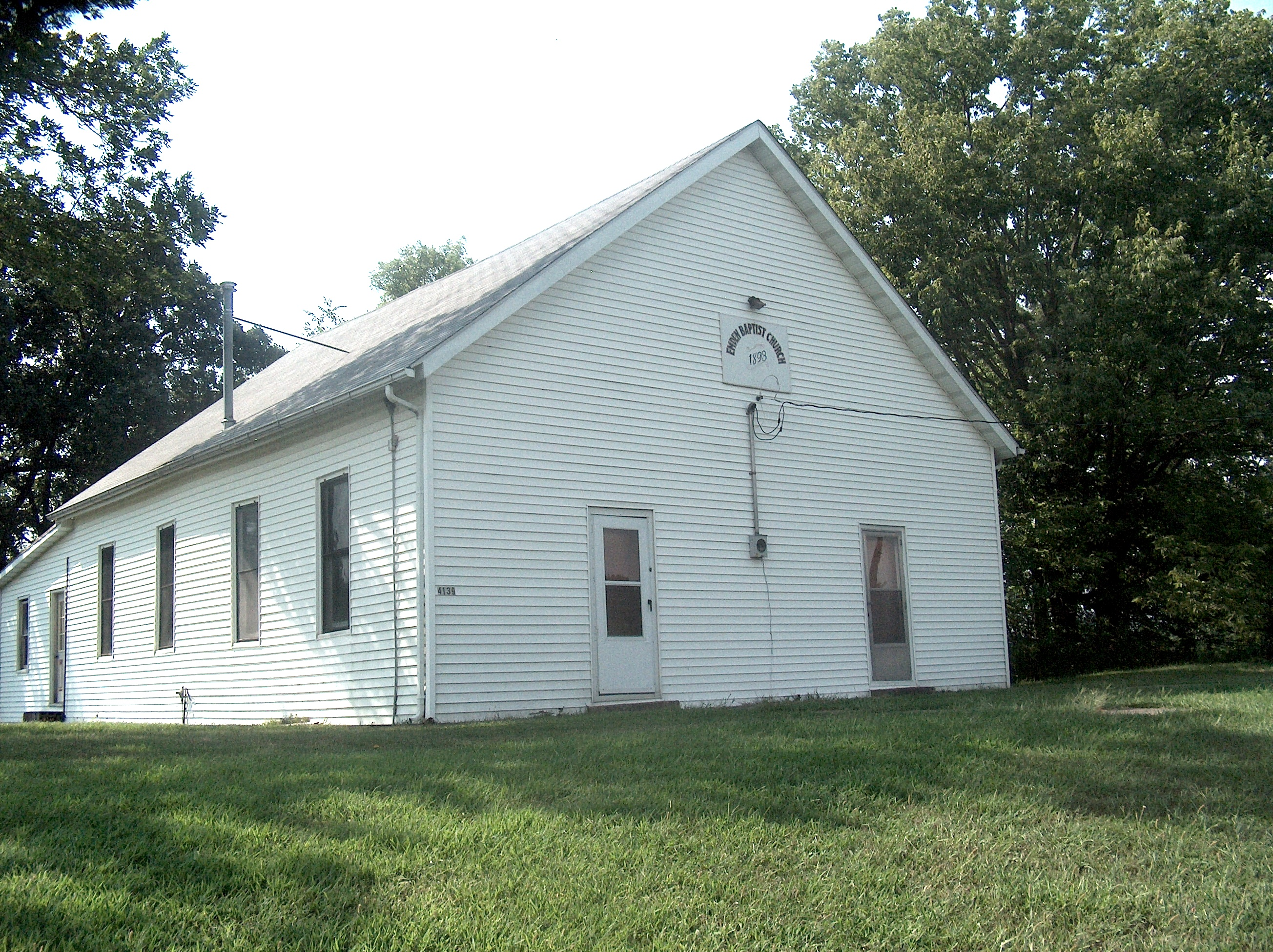 Photo of Emdon Baptist Church, Emden, Missouri, USA.